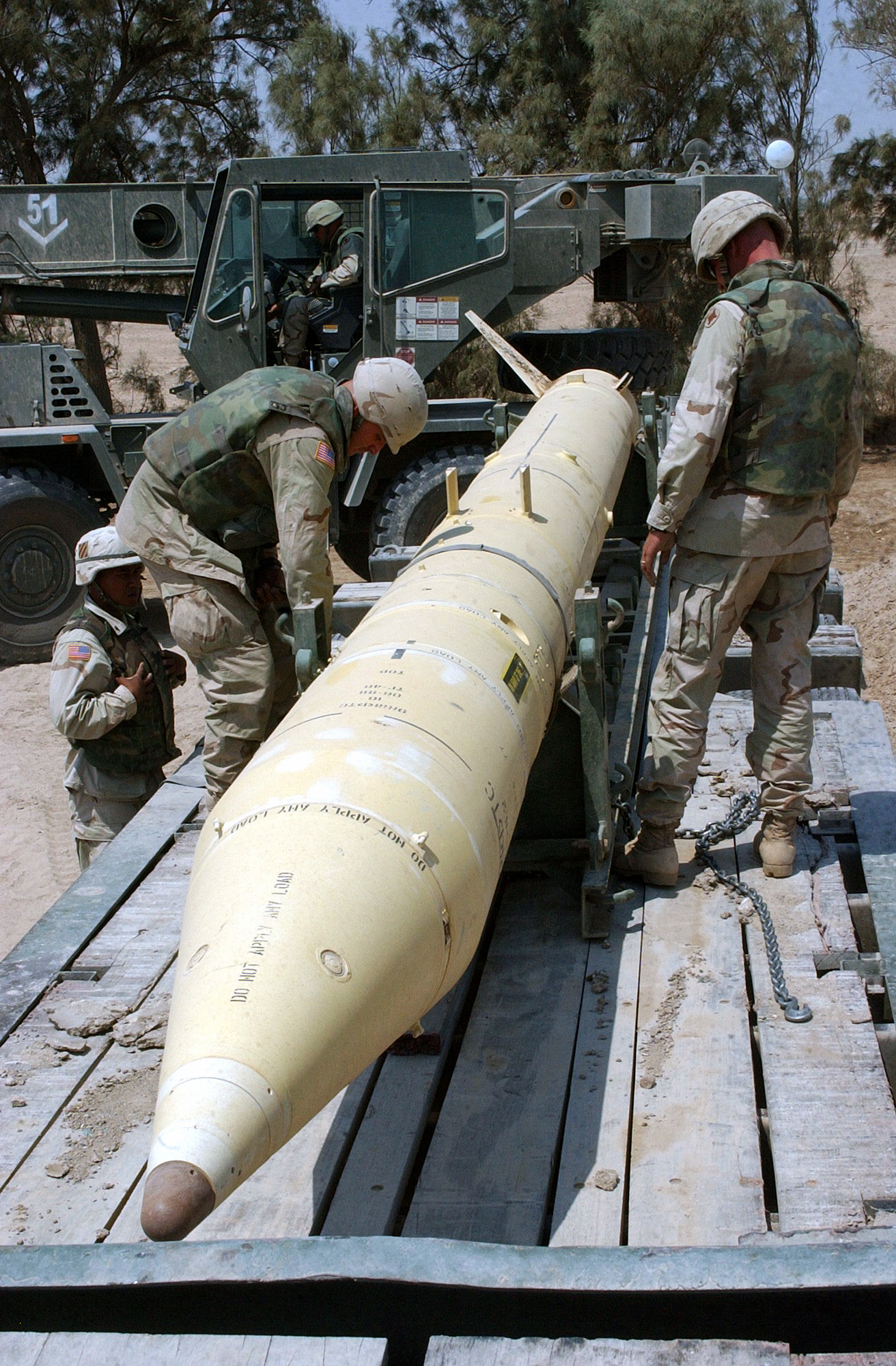 US Army (USA) Soldiers assigned to A/Company, 890th Engineer Battalion, Army National Guard (ANG) attached to the USA 3rd Infantry Division (Mechanized), load an Iraqi Free Rocket Over Ground 7 (FROG-7) missile onto a flatbed truck, after the missile was discovered outside of Fallujah, Iraq, during Operation IRAQI FREEDOM. Location: FALLUJA, AL ANBAR IRAQ (IRQ)